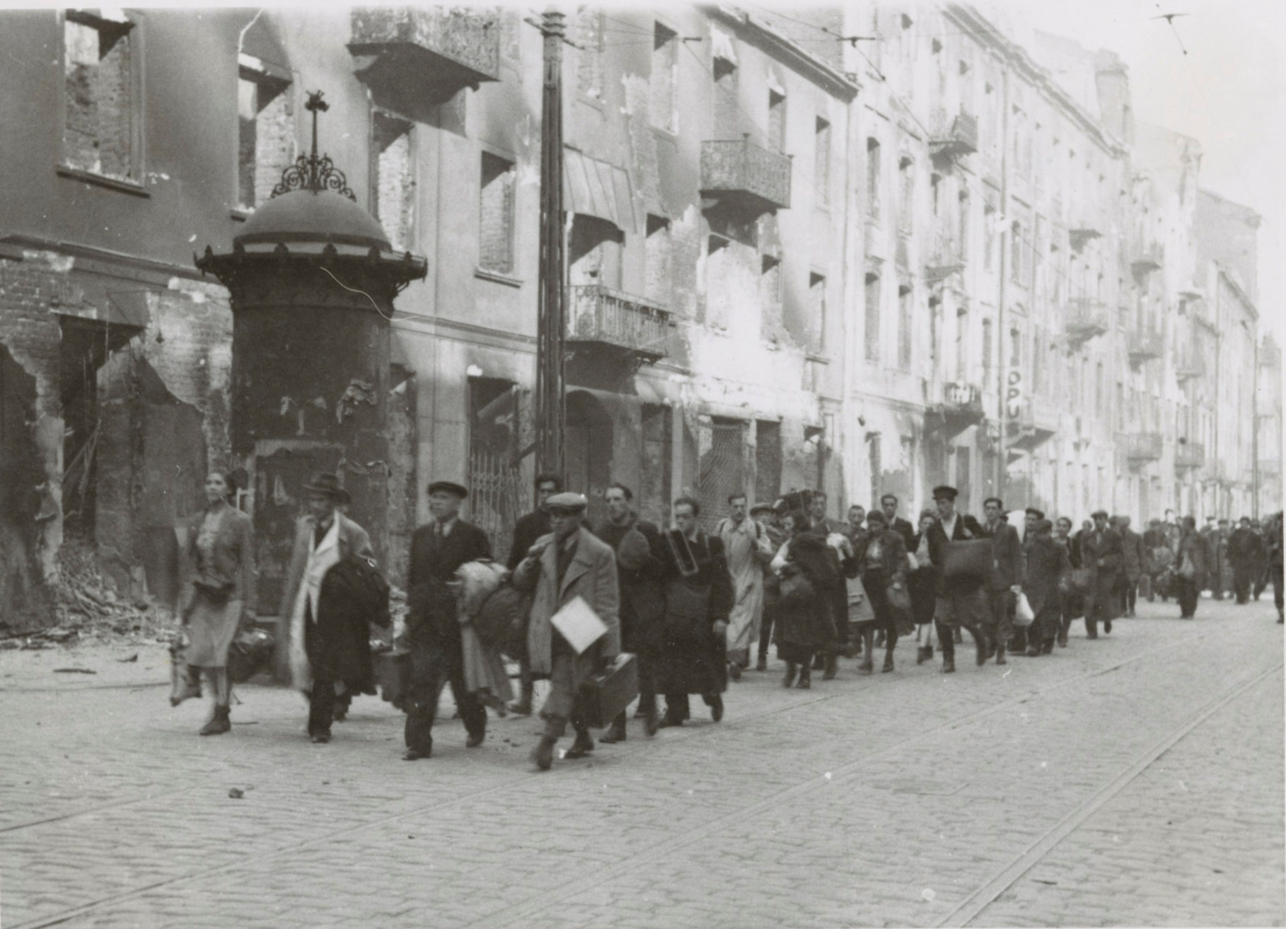 Captured Jews marched off to the Umschlagplatz for deportation in Zamenhofa Street.